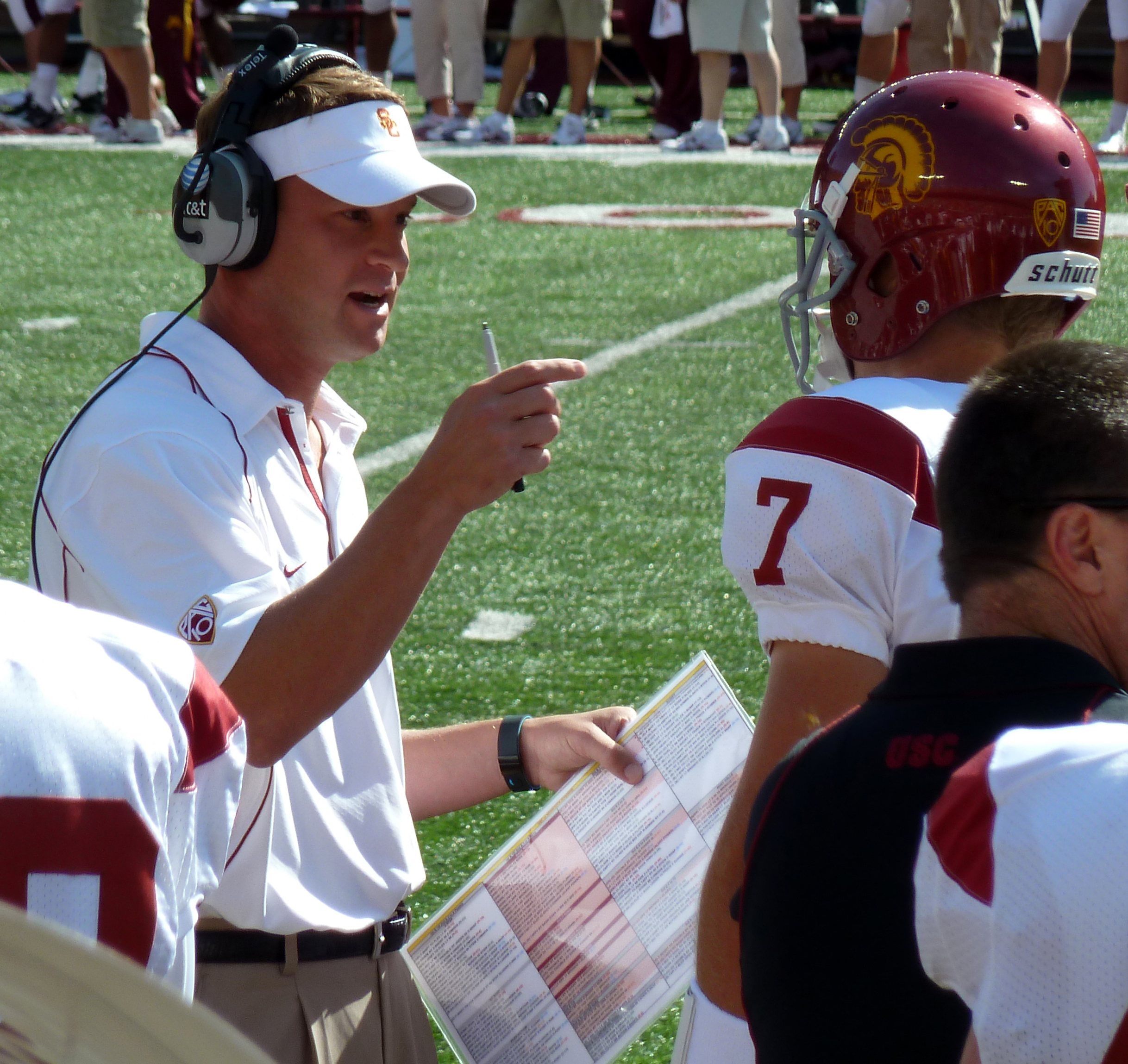 USC Trojans football Head Coach Lane Kiffin talks to Trojans quaterback Matt Barkley (No. 7) during a game in the 2010 USC Trojans football season.